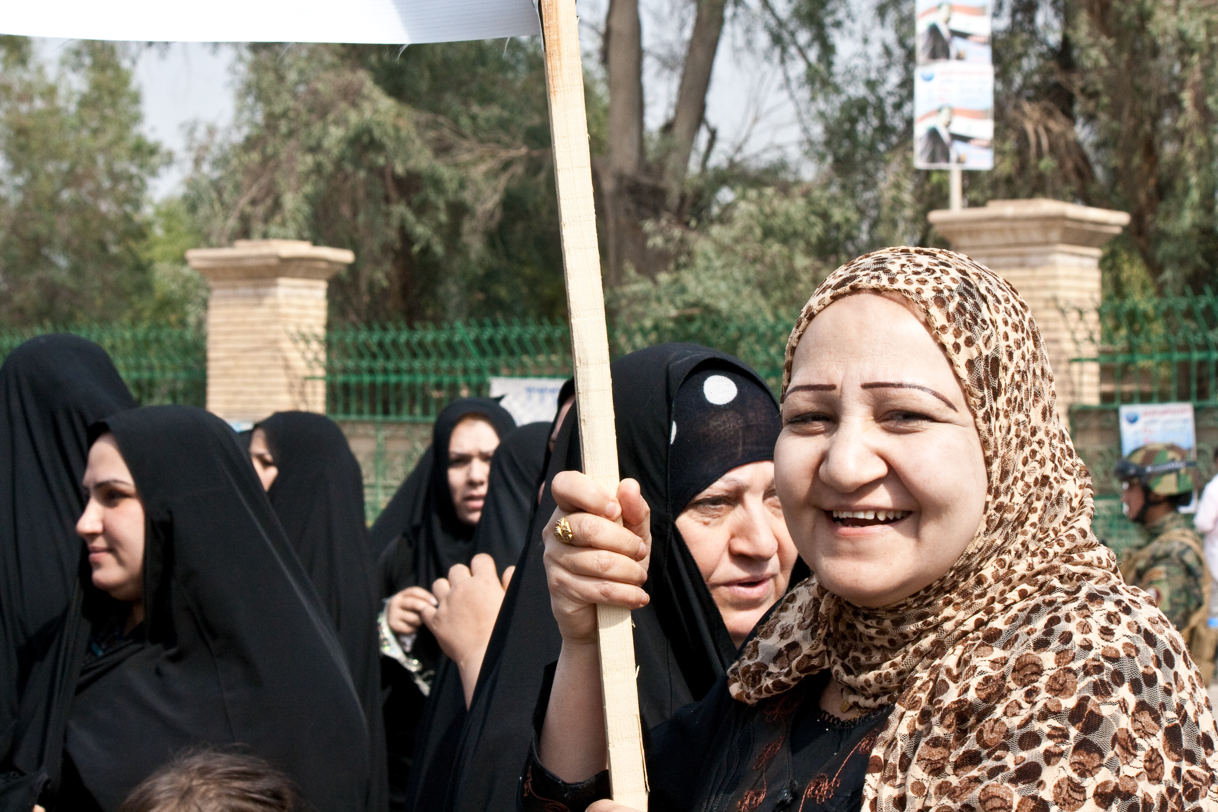 A woman is attending an event orginiesed by the Iraqiya Coalition during the 2010 parlametary elections